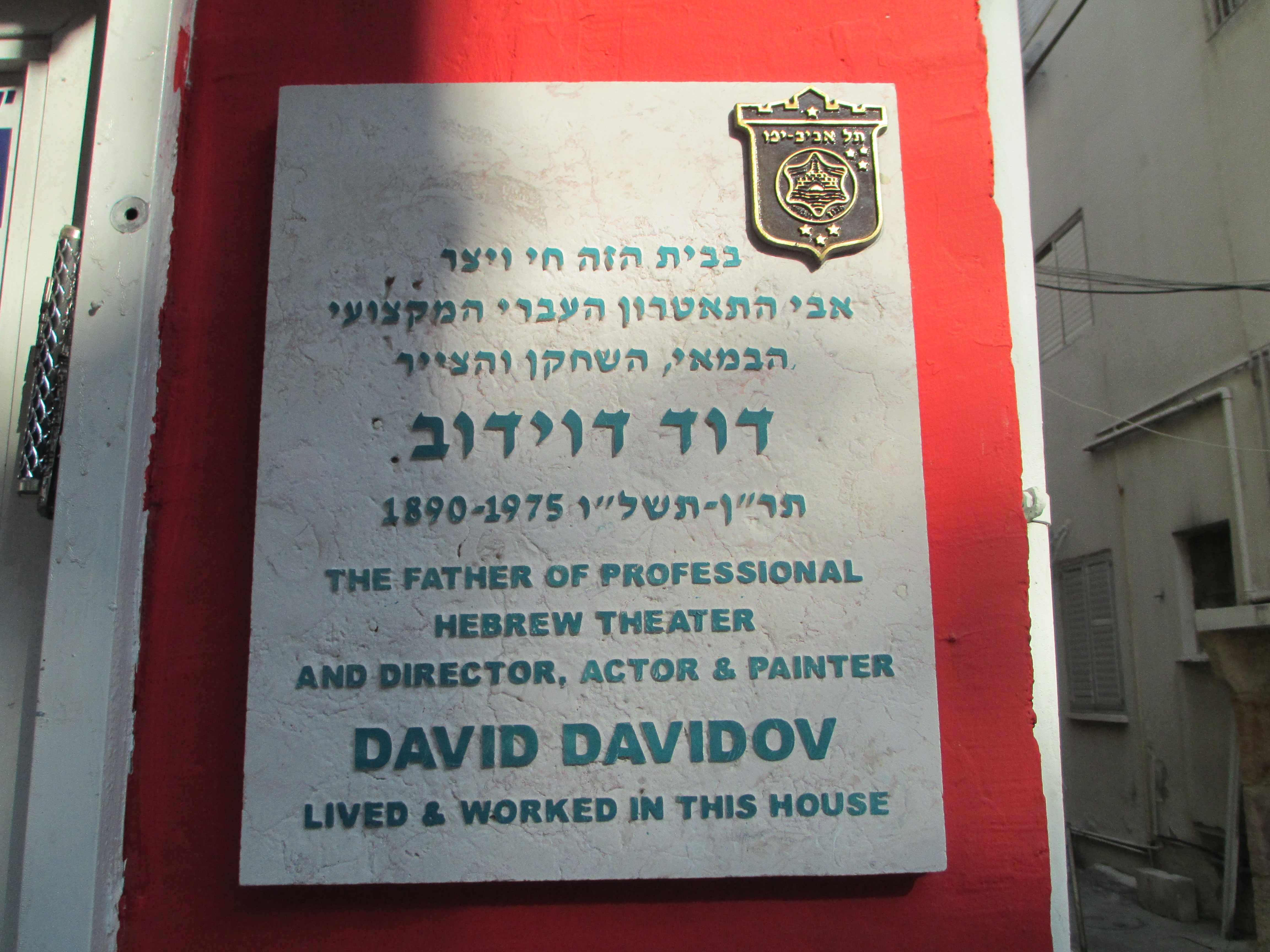 memorial plaque on the house of the actor david davidov in tel aviv לוחית זיכרון על ביתו של השחקן דוד דוידוב ברח' שדרות יהודית 7 בתל אביב